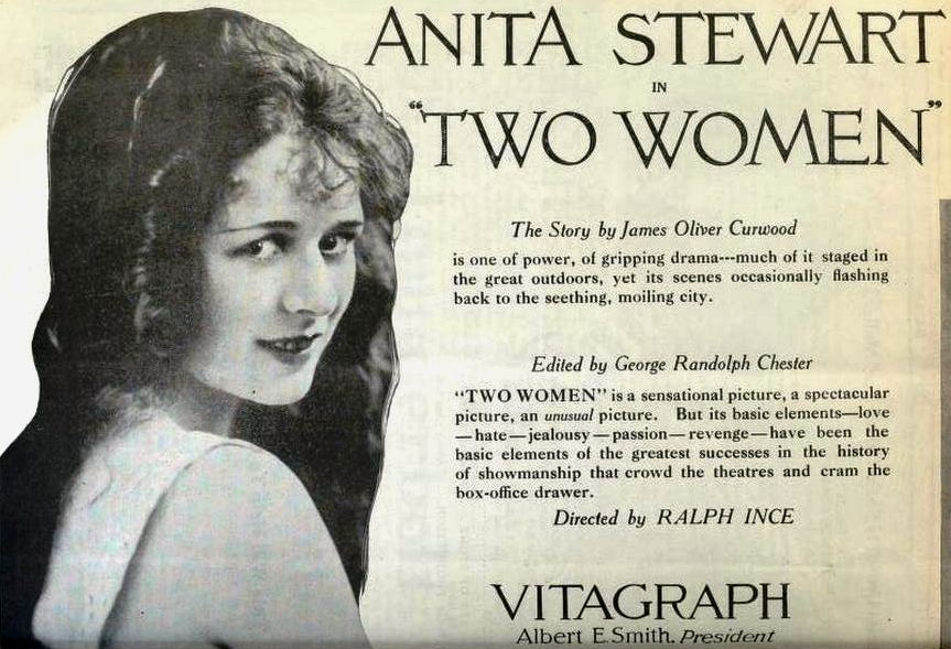 Ad for the American drama film Two Women (1919) with Anita Stewart, on page 24 of the April 13, 1919 Film Daily. Note from the AFI Catalog of Feature Films:This film was a re-edited version of a three reel film released 5 Jan 1915 which opened at the Vitagraph Theatre in New York on 2 Nov 1914. It was a Broadway Star Feature, released by General Film Co. through their feature department. The names of the characters differ from the 1919 version: in the 1915 release, Anita Stewart played "Anita, of the Woodland," Earle Williams played "John Emerson," Julia Swayne Gordon played "Cleo Emerson" and Harry Northrup played "Robert Lawler." The story also varies from that of the 1919 version: John, gone only part of a day, finds that his wife and his boss have been joyriding. After he divorces her, she marries the boss and they go to Europe. John then meets Anita in the mountains for the first time. At the end, John's first wife returns after the death of her husband and tracks John to his mountain cabin. Although he is blinded by her beauty at first, when Anita enters, he sends his divorced wife away and embraces Anita. The wife returns to the city. There is no train wreck. The three reel version was copyrighted by The Vitagraph Co. of America; 23 Nov 1914; LP3821.